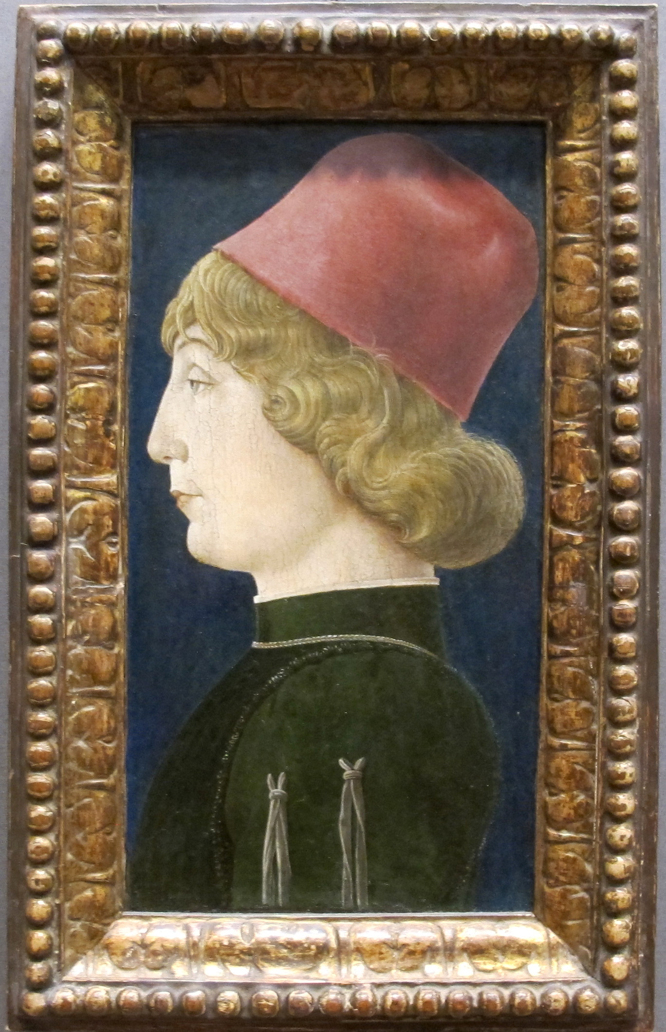 Paintings of the Italian Renaissance in the Metropolitan Museum of Art